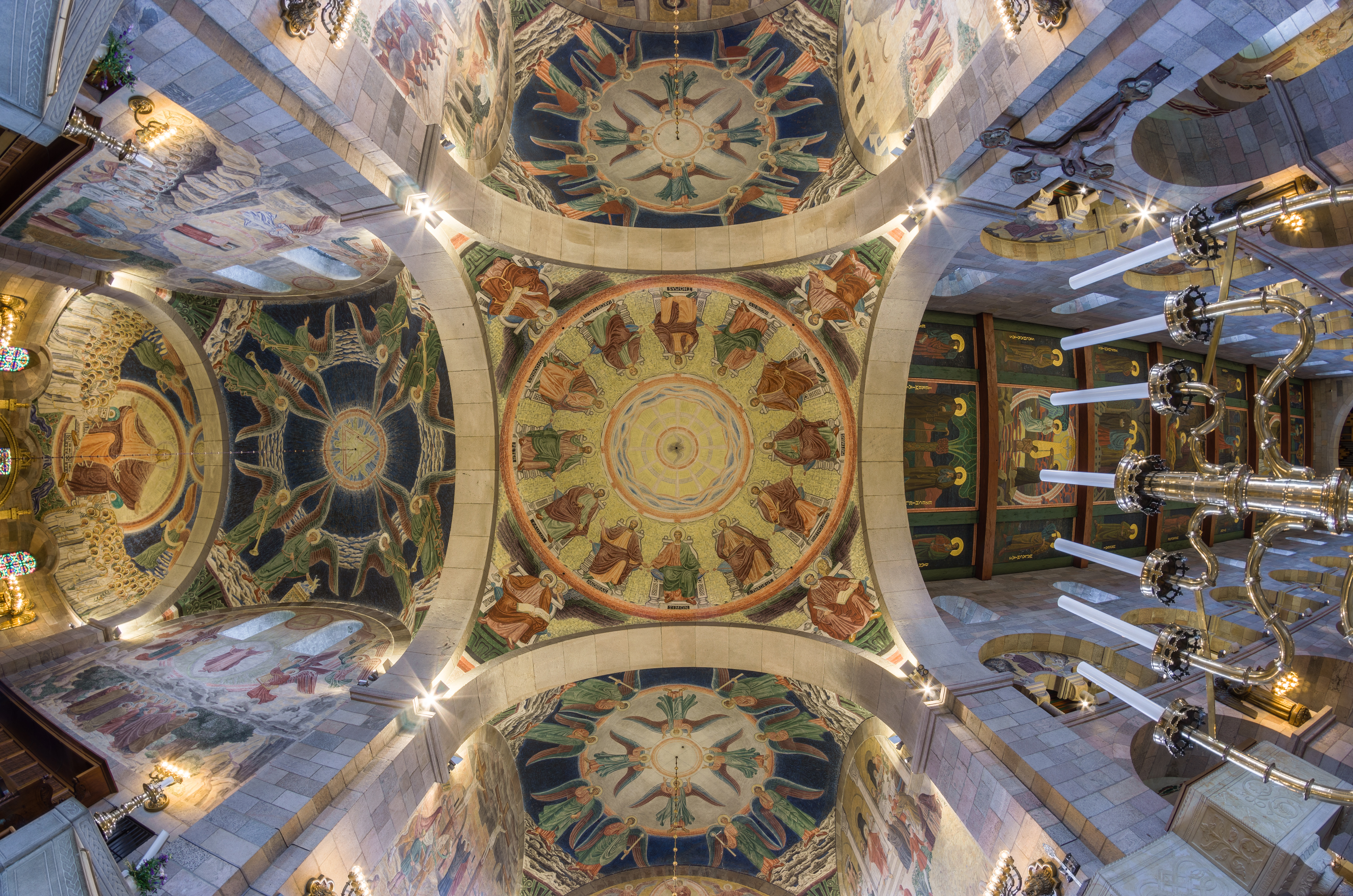 Viborg cathedral ceiling